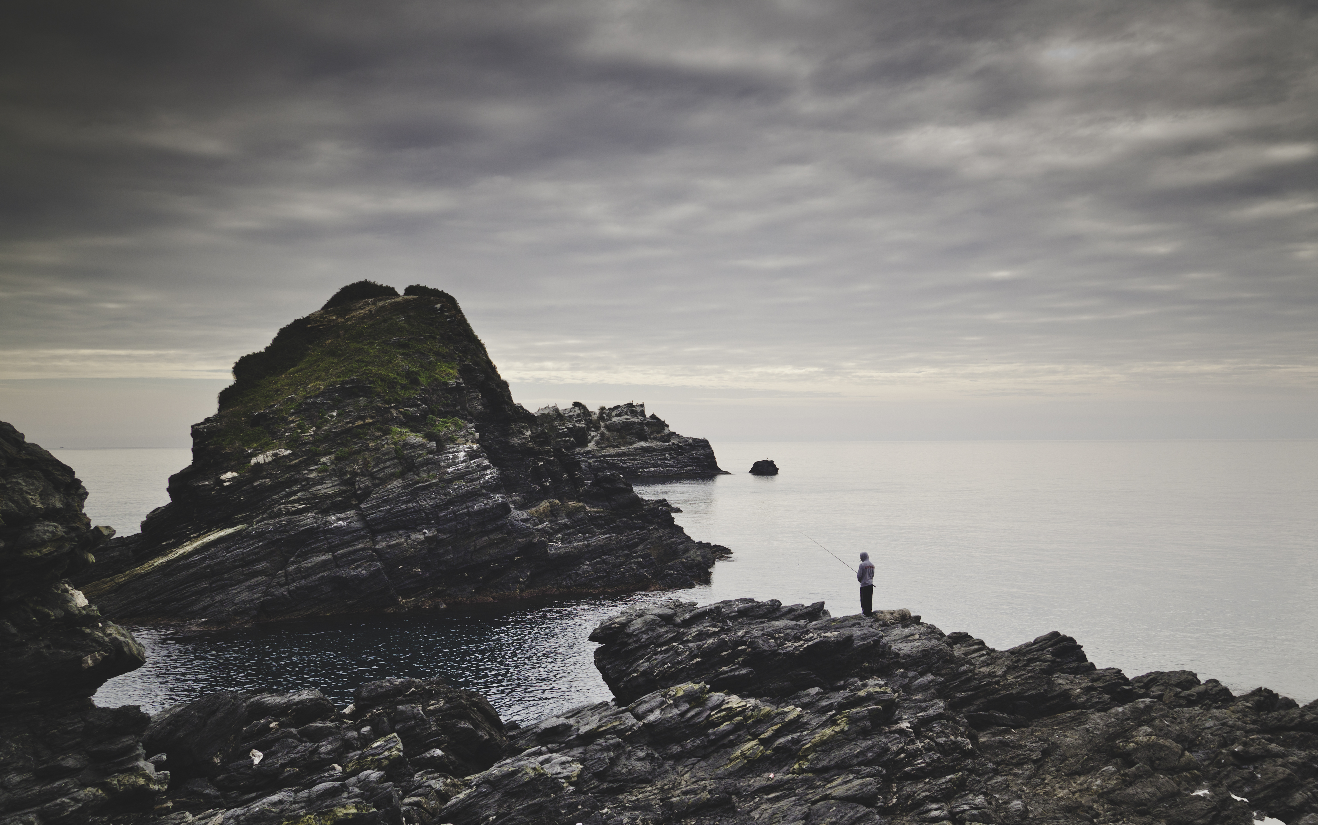 Almuñécar, Spain